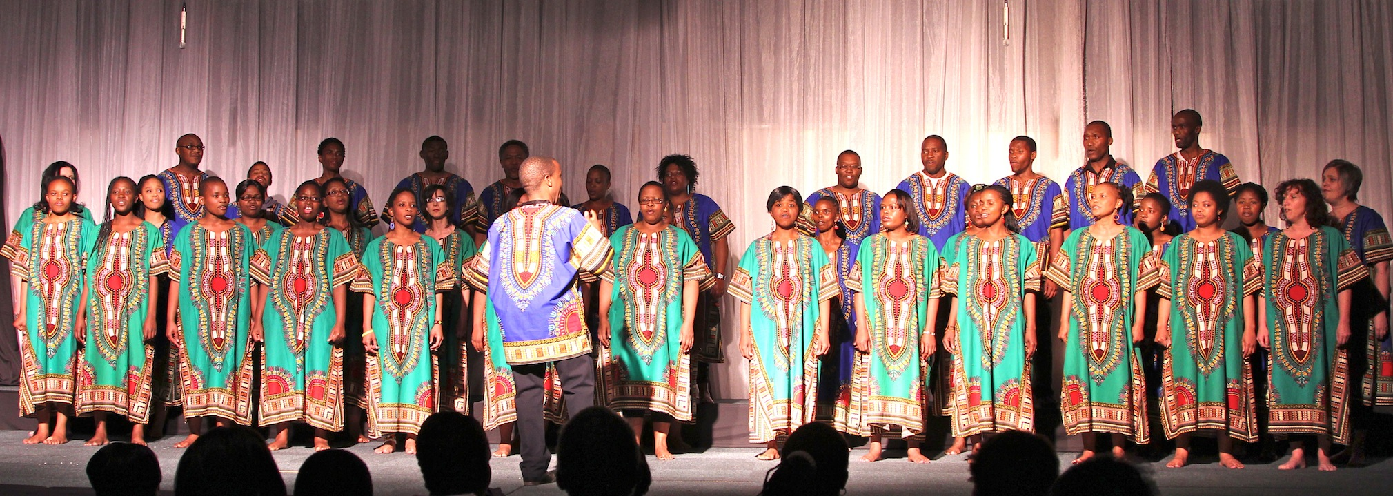 Johannesburg Church Choir